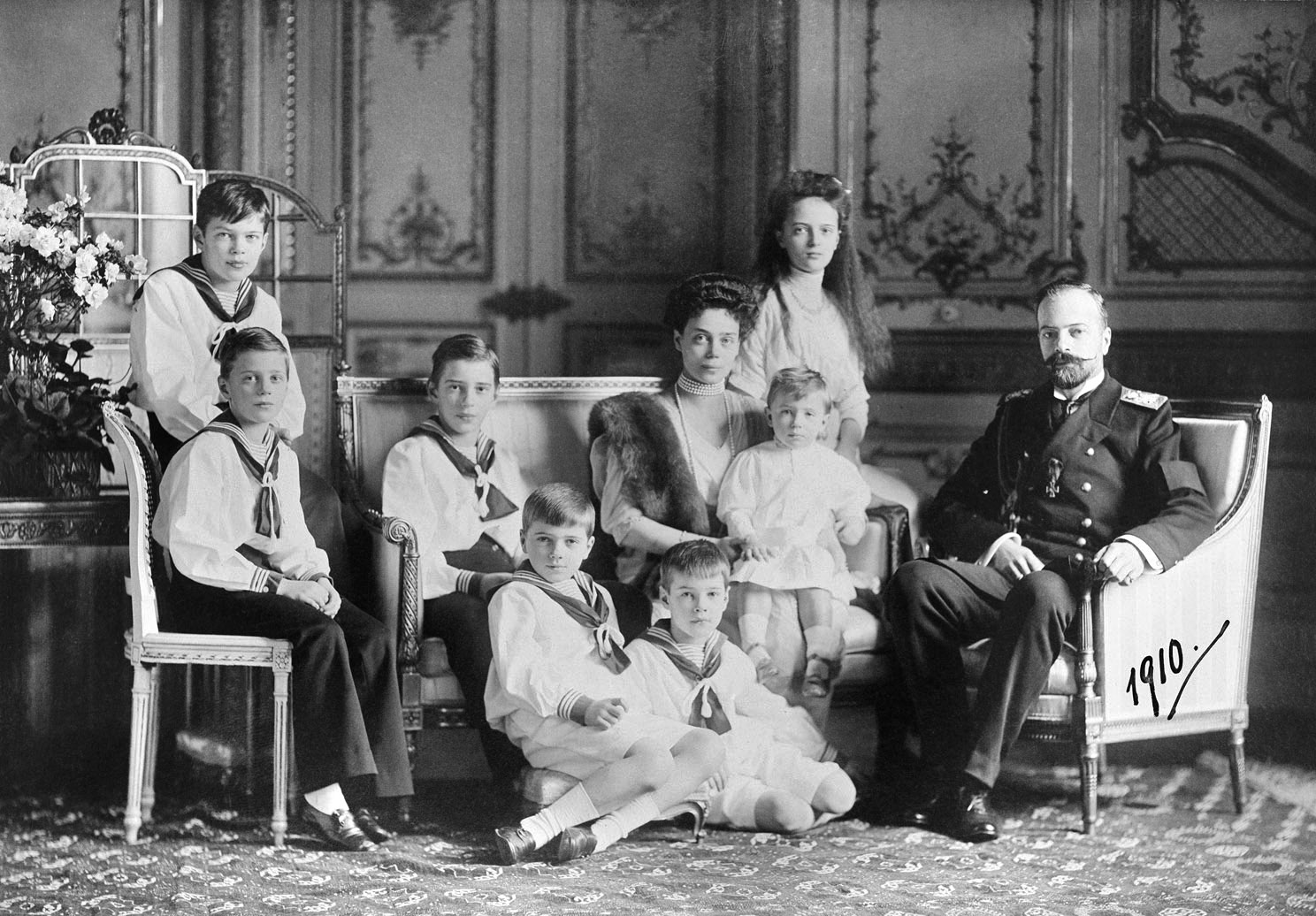 Grand Duchess Xenia Alexandrovna and Grand Duke Alexandr Mikhailovich of Russia with their children.